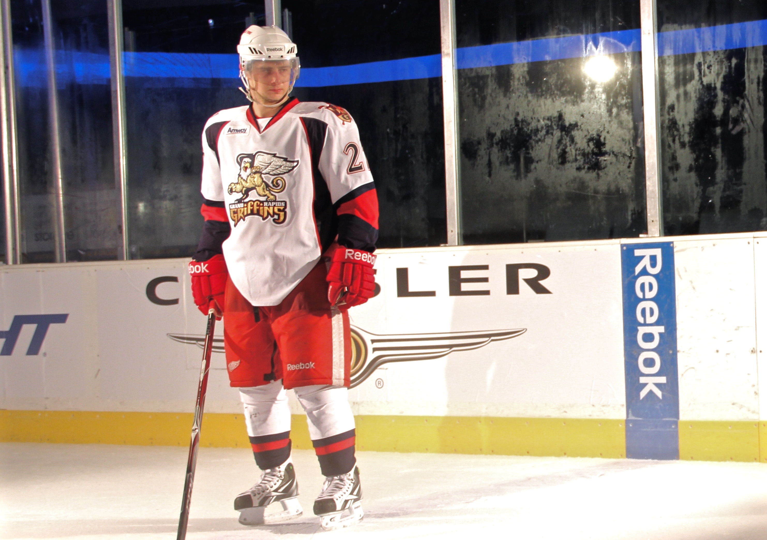 Tomáš Tatar when he played for the Grand Rapids Griffins in 2010.